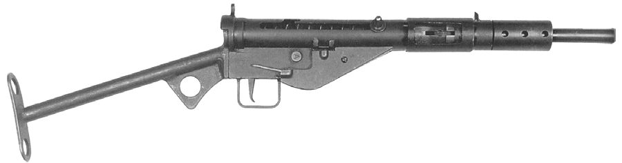 STEN MK II submachinegun